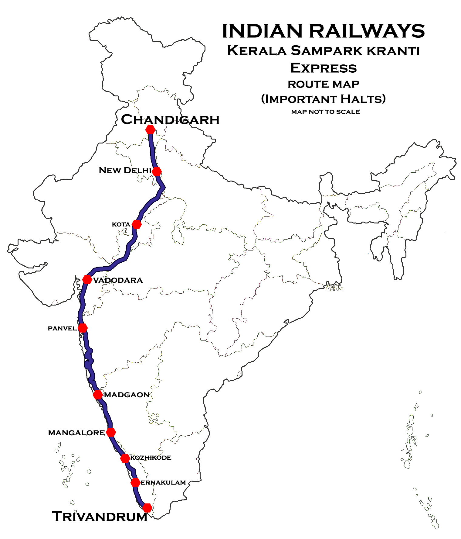 Kerala Samparkkranti Express Route map